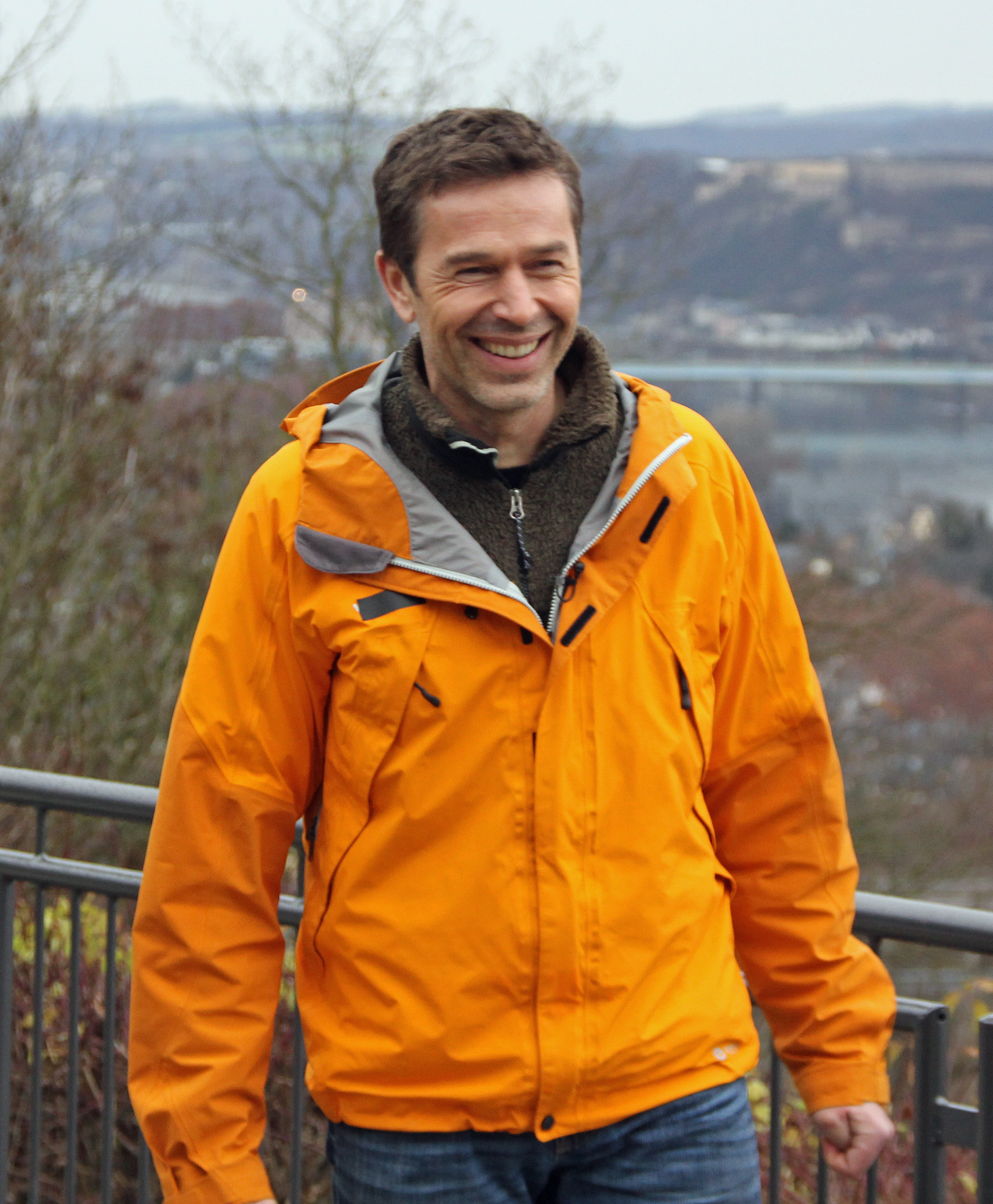 Dirk Steffens in Koblenz